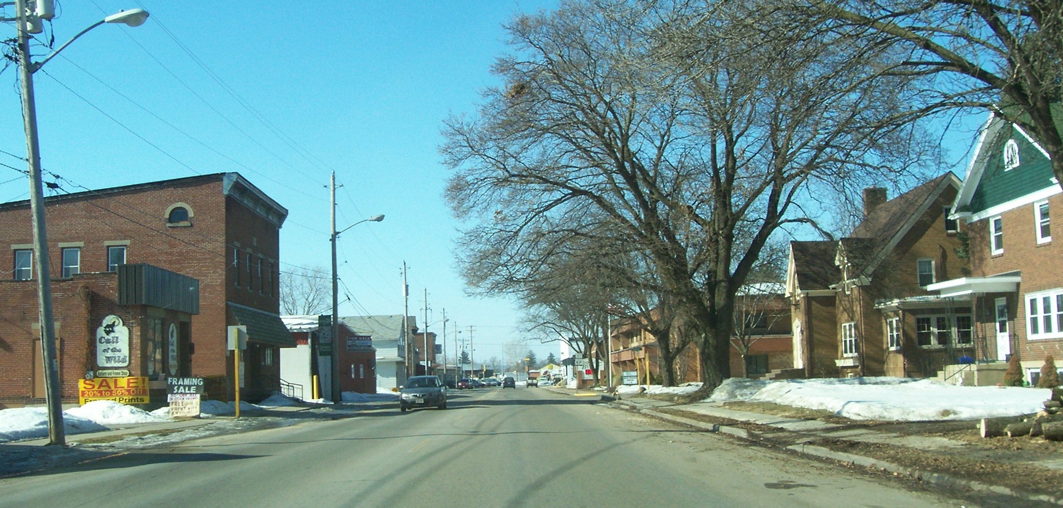 Looking west at downtown Cross Plains, Wisconsin on U.S. Route 14.